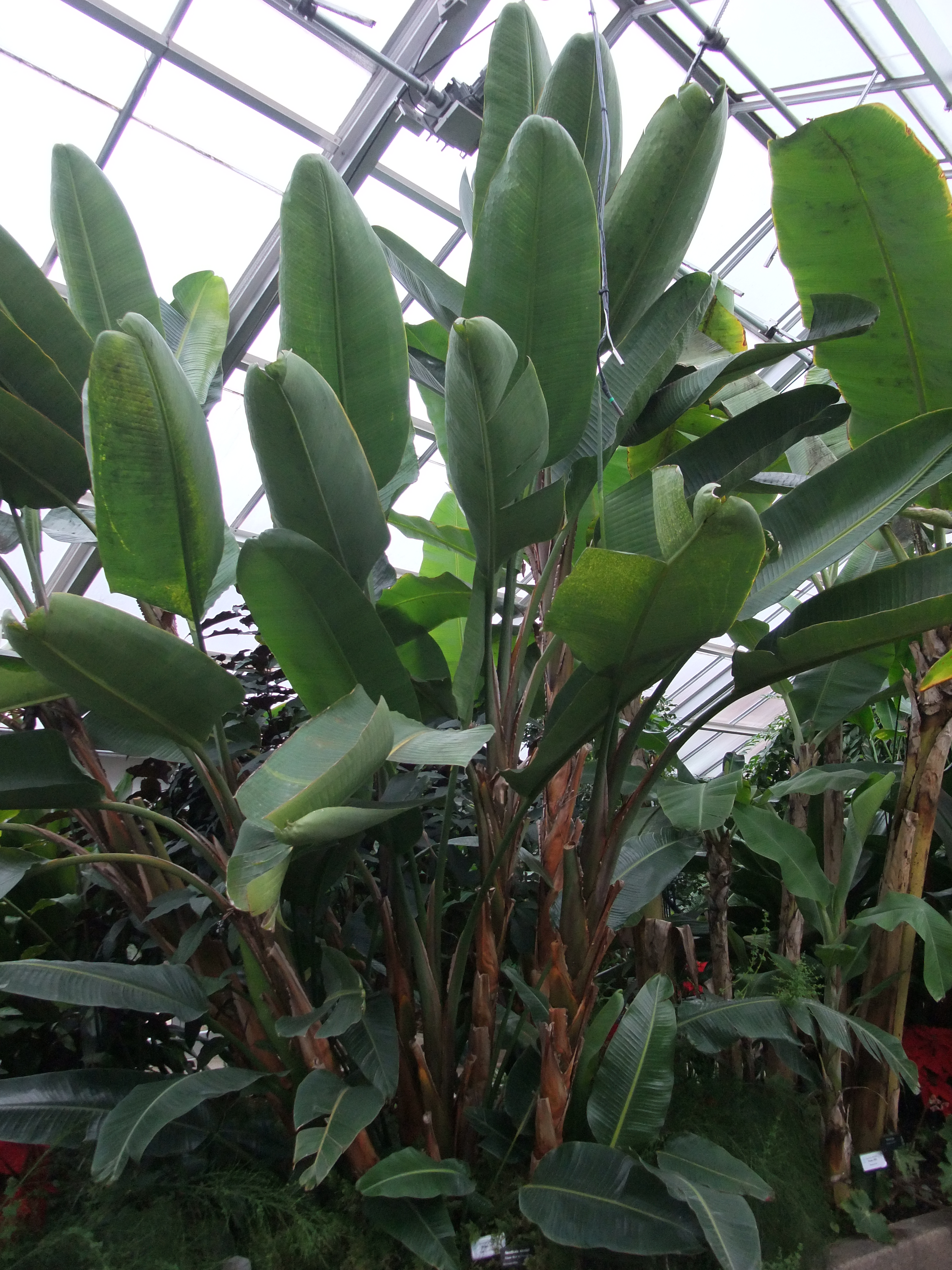 A photograph of Strelitzia nicolai.